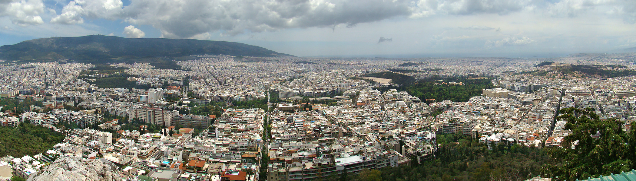 Athens, Greece. Panorama from the top of Mount Lycabettus, looking southwest. Visible sites on the right part of photo: the Panathinaiko Stadium, the Temple of Olympian Zeus, the Hellenic Parliament, the Syntagma Square, the Acropolis and the Parthenon.